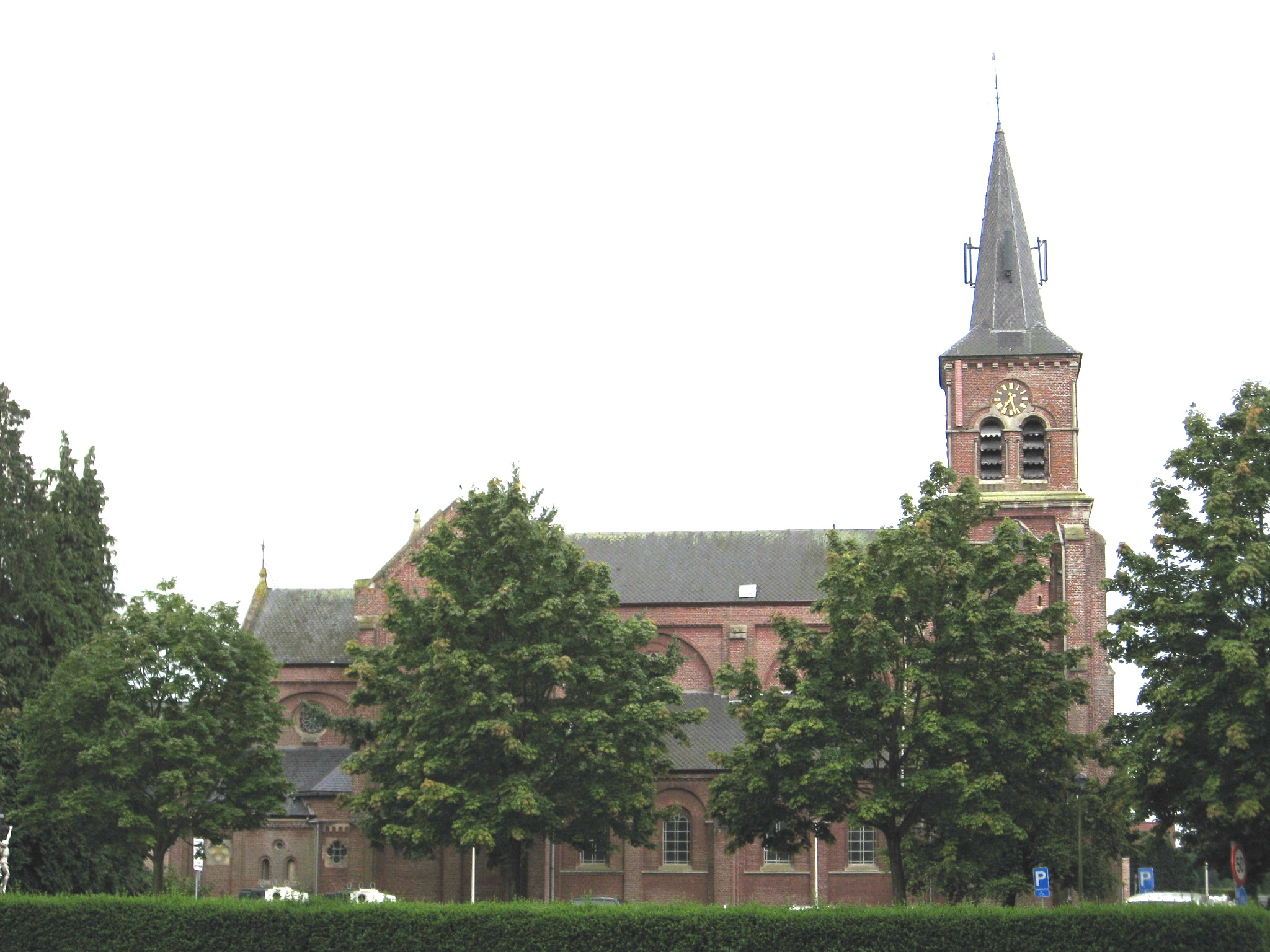 Church of Saint Joseph in Tessenderlo (Schoot), Limburg, Belgium